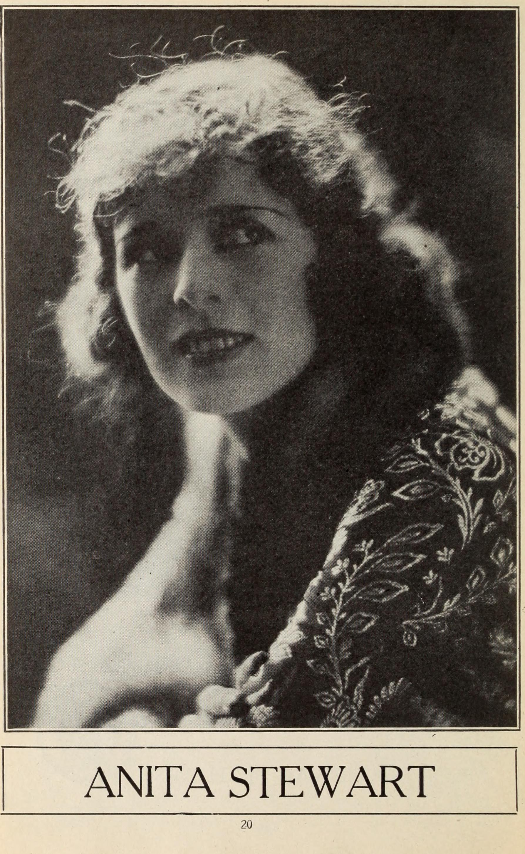 Actress Anita Stewart Title: Wid's Year Book 1921 Year: 1921 (1920s) Authors: Wid's Films and Film Folk, Inc. Wid's Films and Film Folk, Inc. Subjects: Motion Pictures Publisher: New York, Wid's Films and Film Folk, Inc. Text Appearing Before Image: 10 Text Appearing After Image: Erich von Stroheim AUTHOR - PRODUCEROF BLIND HUSBANDSTHE DEVILS PASSKEY JUST COMPLETED FOOLISH WIVES FOR UNIVERSAL 21 Dorothy Farnum Good References, Constance TalmadgeThe Great Adventure, Lionel Barrymore Jim the Penman, Lionel BarrymoreSalvation Nell, Whitmrn Bennett SpecialThe Eye of Suspicion, Whitman Bennett SpecialThe Iron Trail, Rex Beach ProductionJacqueline, James Oliver Curwood Production Address—Whitman Bennett Studios537 Riverdale AvenueYonkers, New York 22